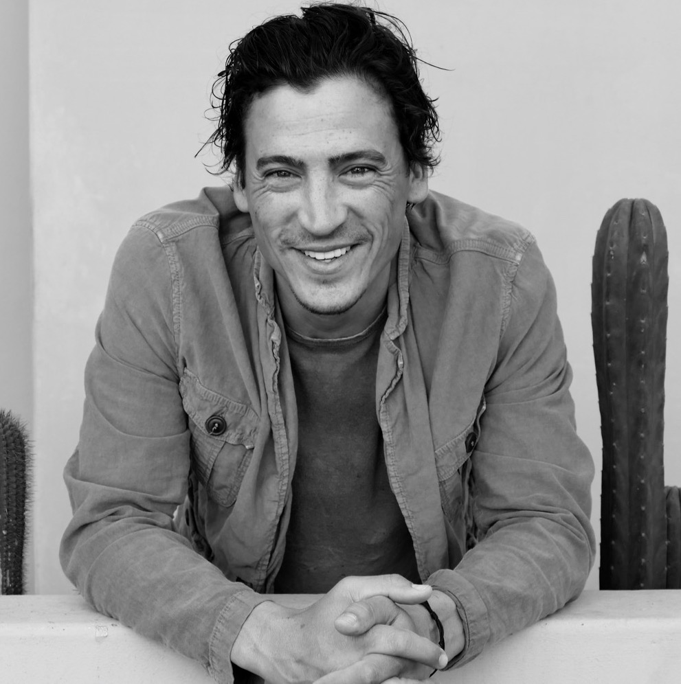 Photo of Andrew Keegan